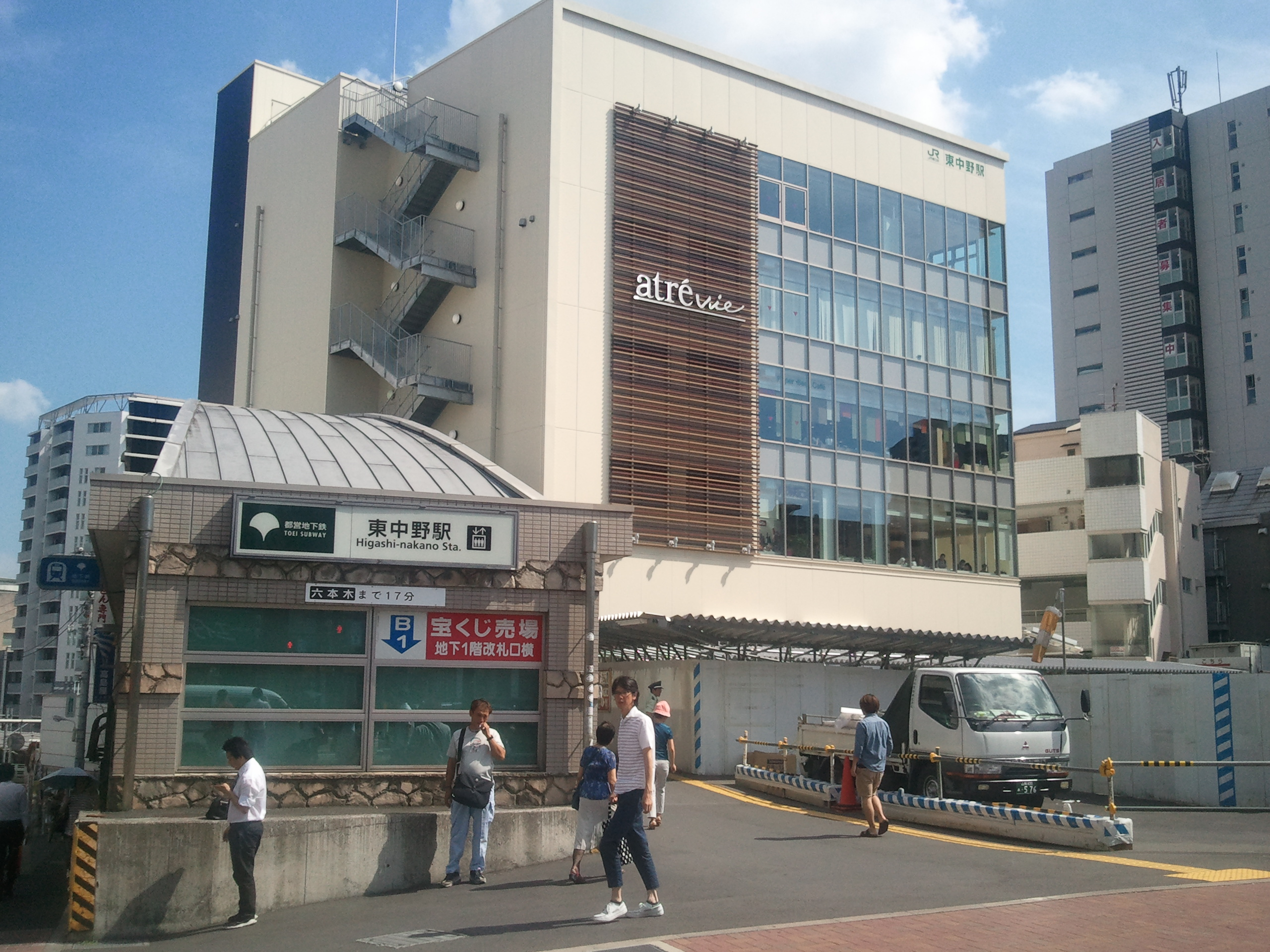 Higashi-Nakano station west and atrévie Higashi-Nakano